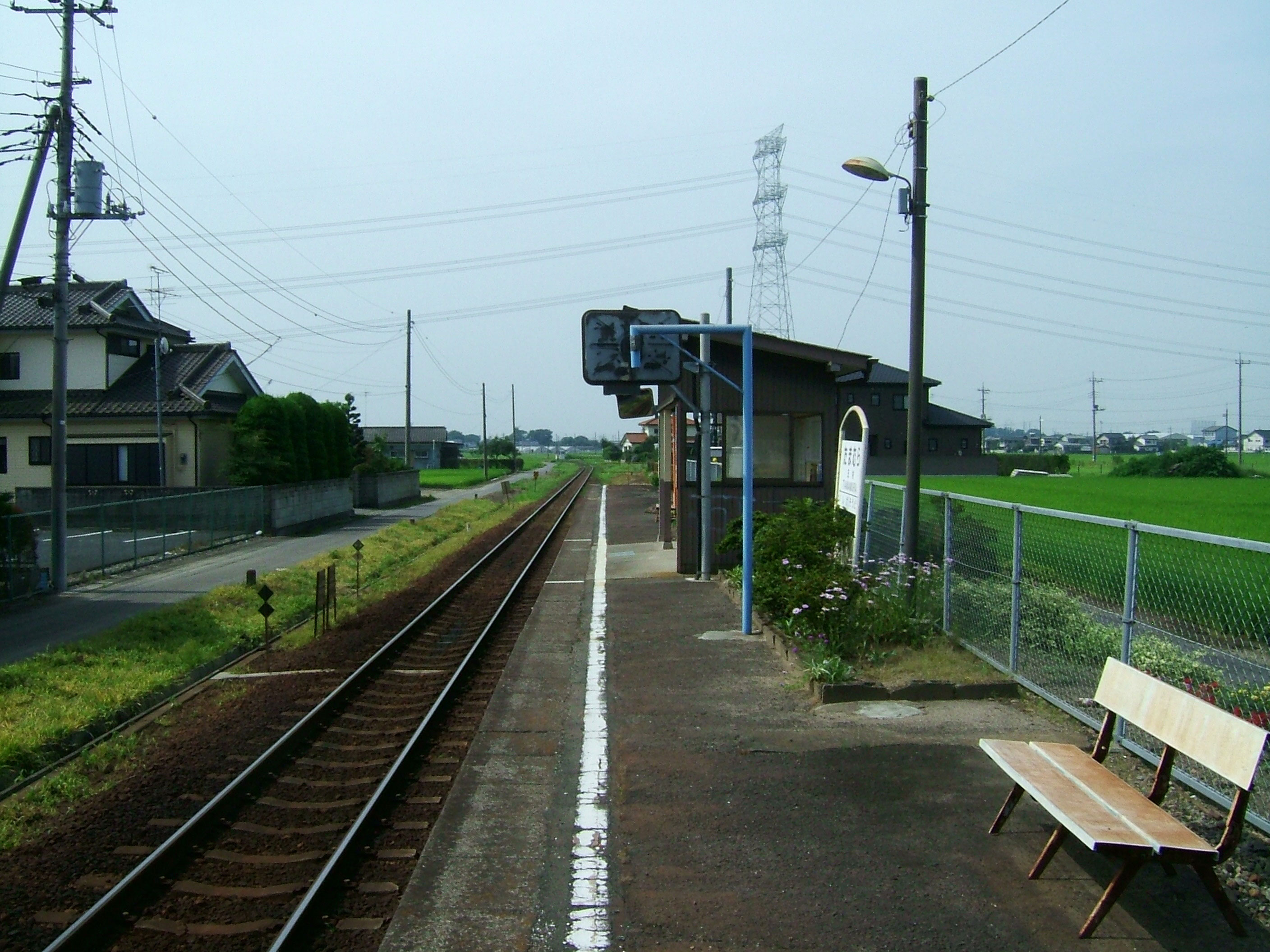 Tamamura Station platform (Kanto Railway Jōsō Line)